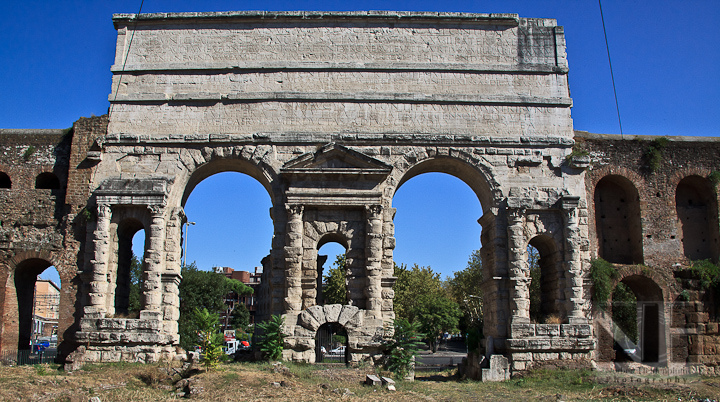 Porta Maggiore ("The larger gate")